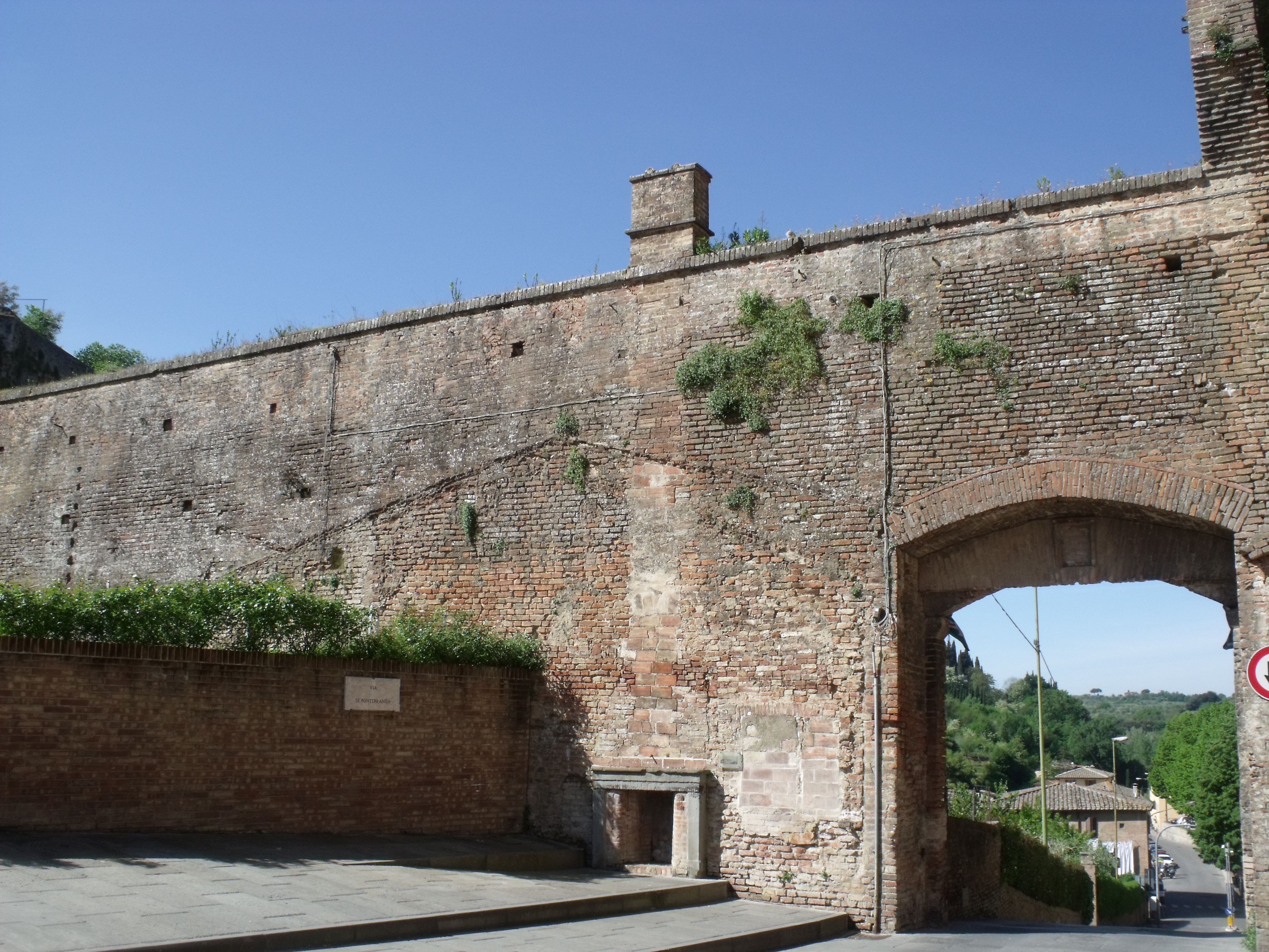 The City Gate Porta Fontebranda seen from the inside (Siena, Province of Siena, Tuscany, Italy)